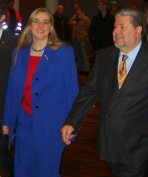 Antje Weiser and Kurt Beck, CFF, Frankenthal (Pfalz)